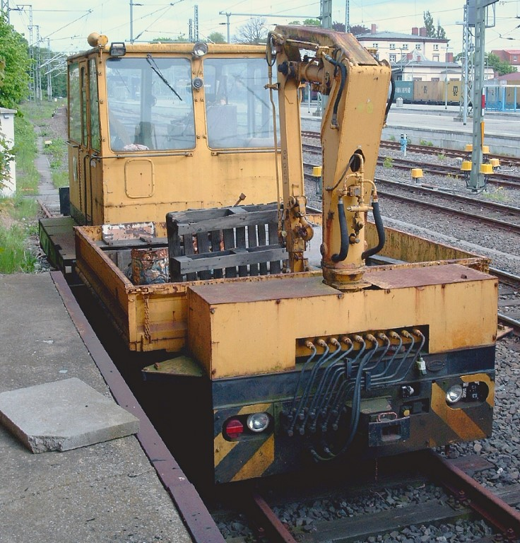 track maintenance vehicle MZG (rear view) in Ludwigslust station, Germany